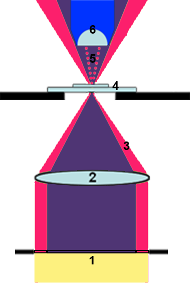 Scheme for Rheinberg Illumination